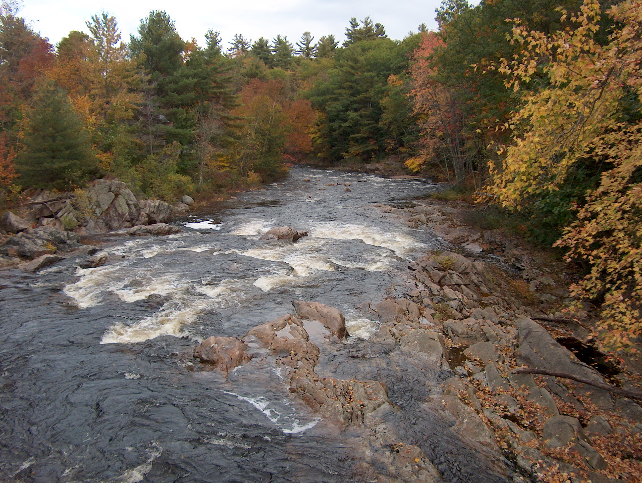 the Bearcamp River in South Tamworth, New Hampshire. Photo by Ken Gallager, Oct. 3, 2008.